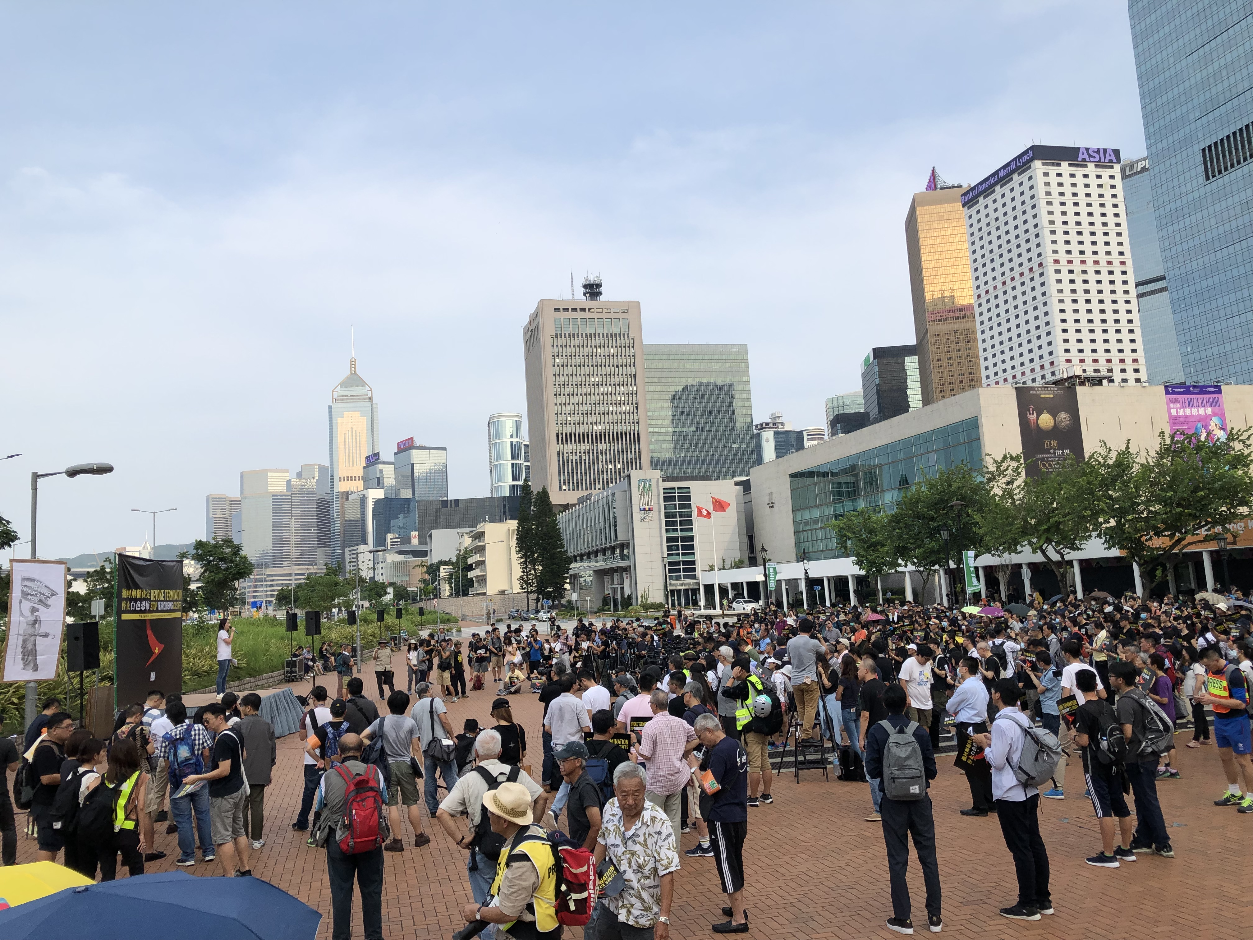 Citizens protests against Cathay Pacific for suppressing their workers due to pressure from China.